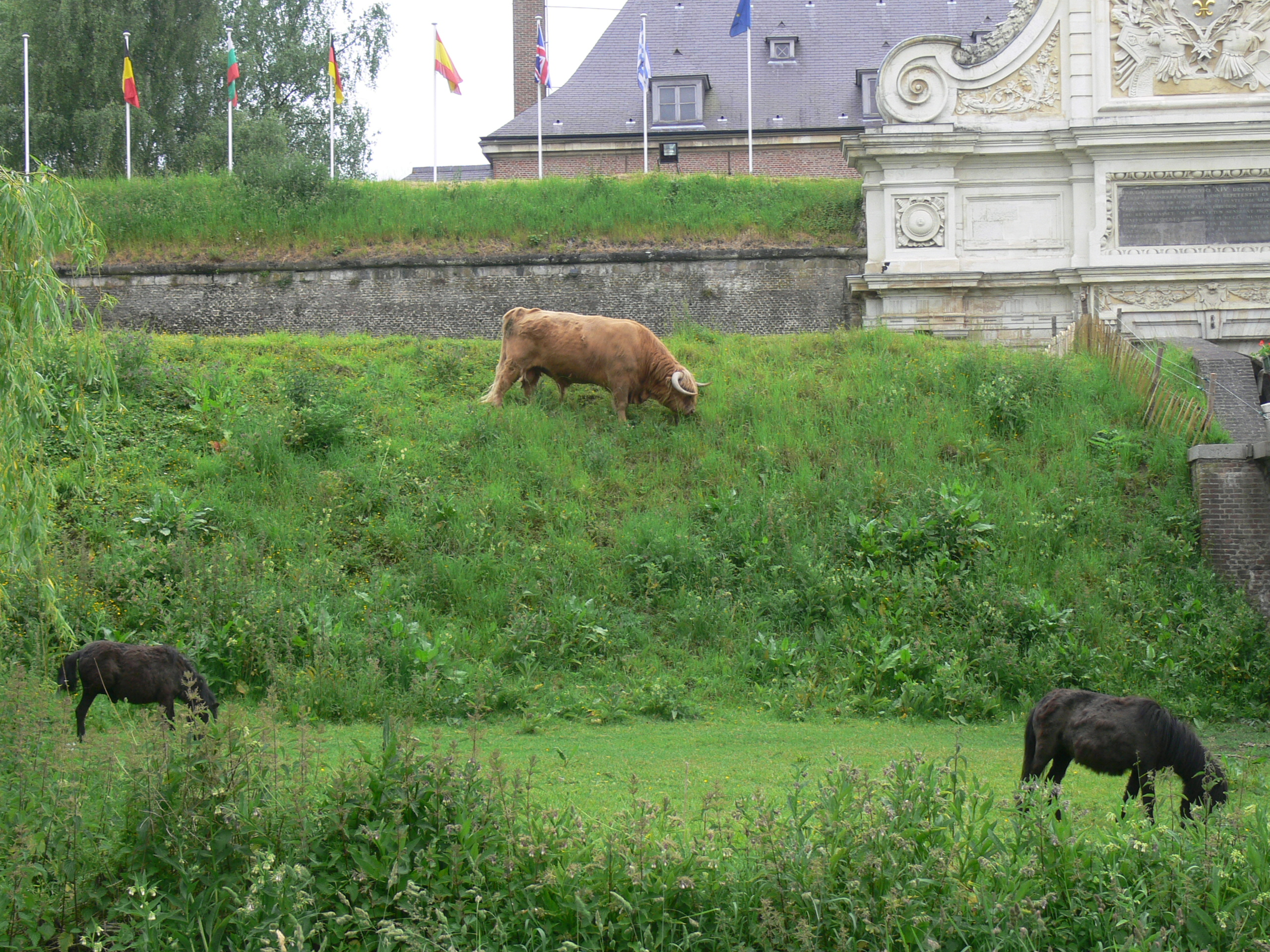 Ponies and Taurus "Highland Cattle" involved in the ecological management of differentiated part of the turn of Walls of Citadel of Lille. Here we see that the bull does not hesitate, free to graze the steep slopes inaccessible to mowers. It is useful to mix different species of herbivores who complementary diets. In an urban environment for the highly fragmented nature, these animals carried a green space to another are also something of a role of biological corridors street carrying propagules in their various hair, hooves and digestive tract. They drink in the ditch (Cunette, in french military architecture) of the citadel and offers a popular entertainment for the public.